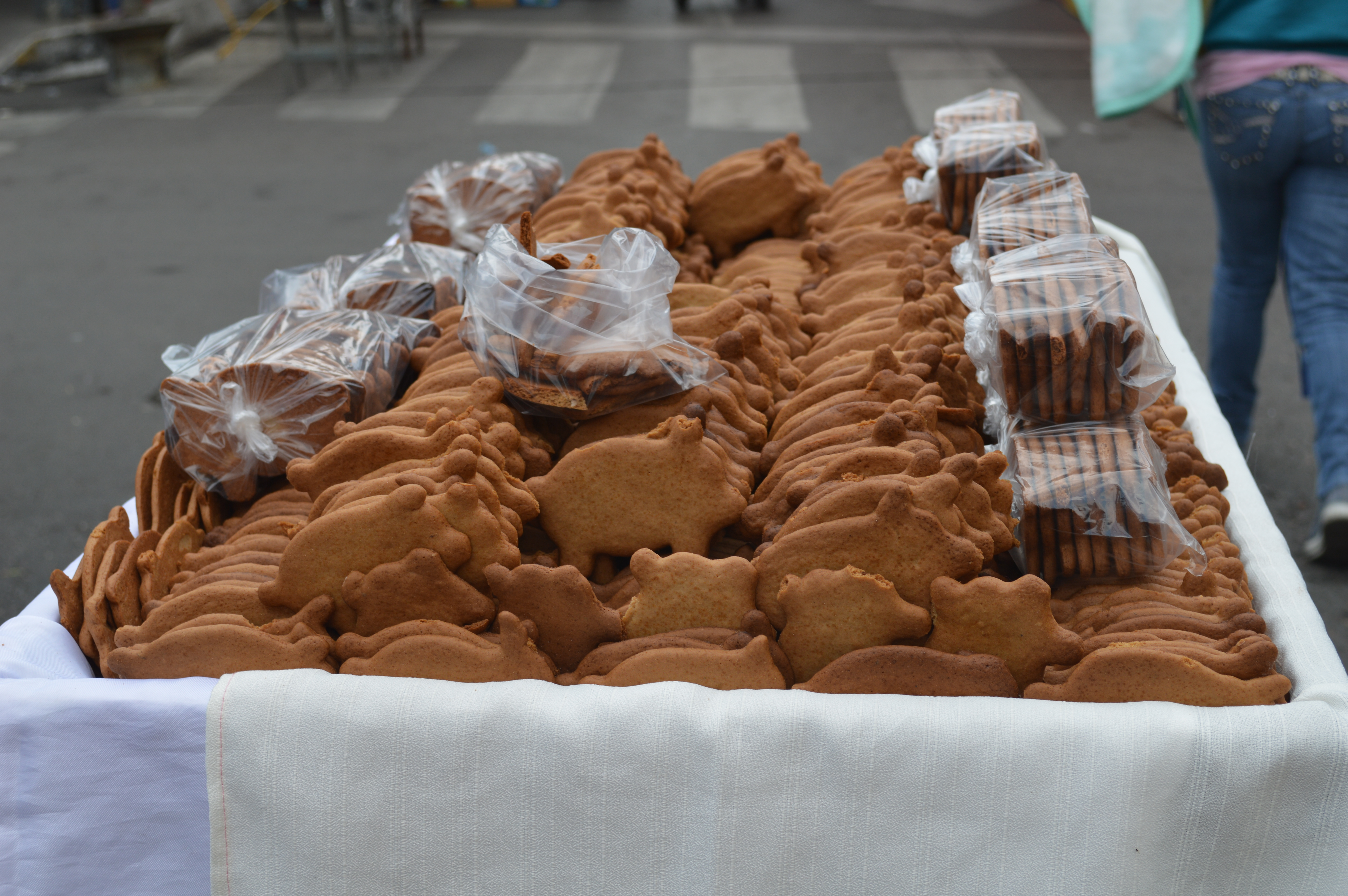 "puerquitos de anise" cookies sold by a street vendor at a fair in Cuajimalpa, Mexico City